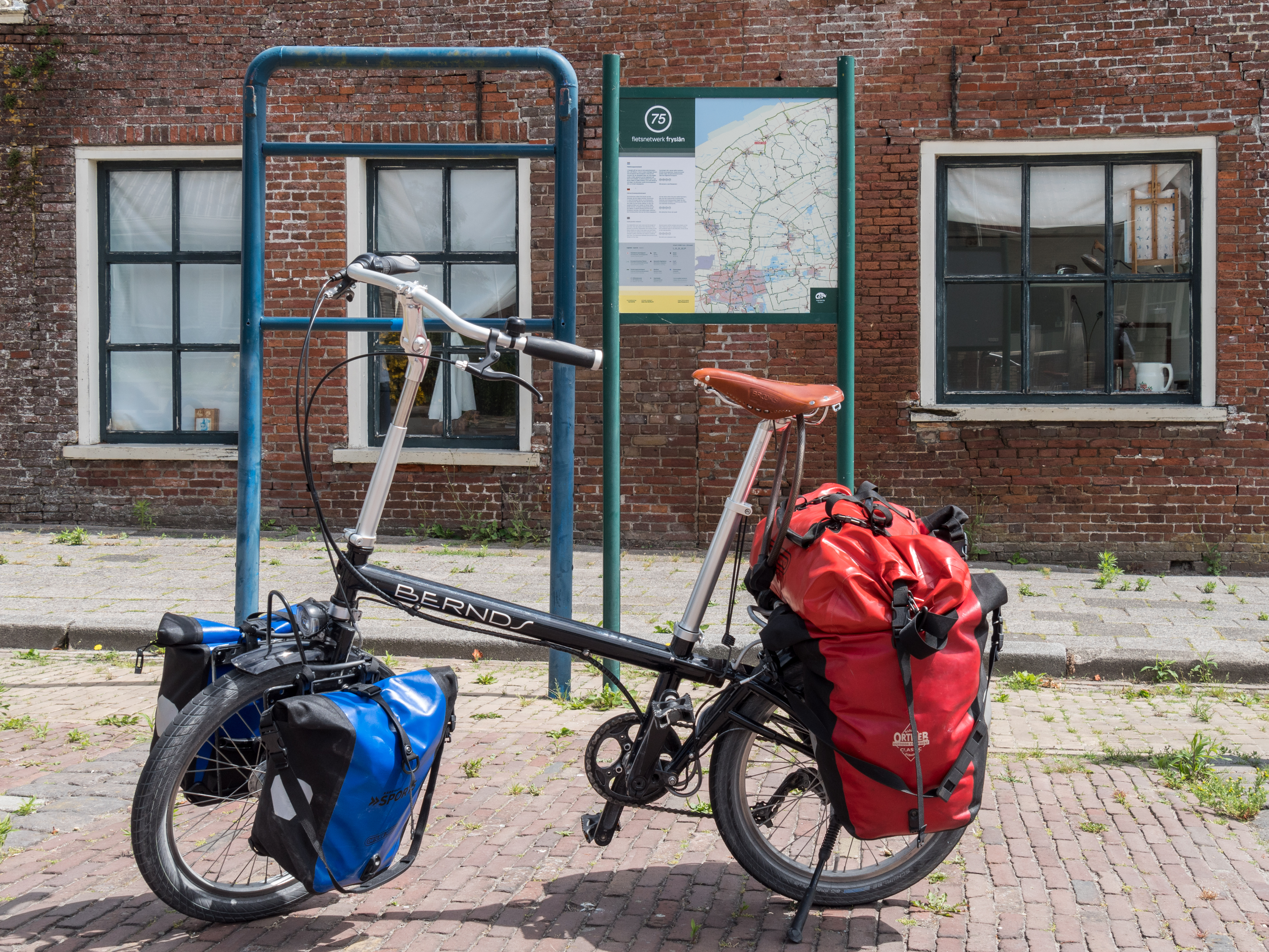 BERNDS folding bicycle - usable even for longer trips